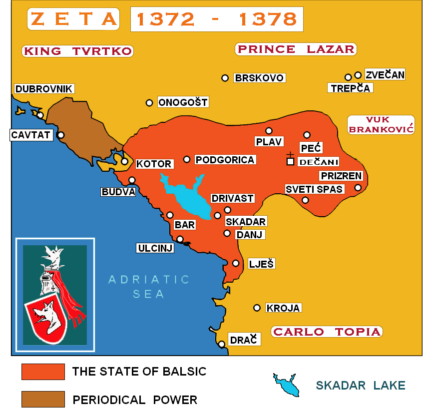 The State of Balsic